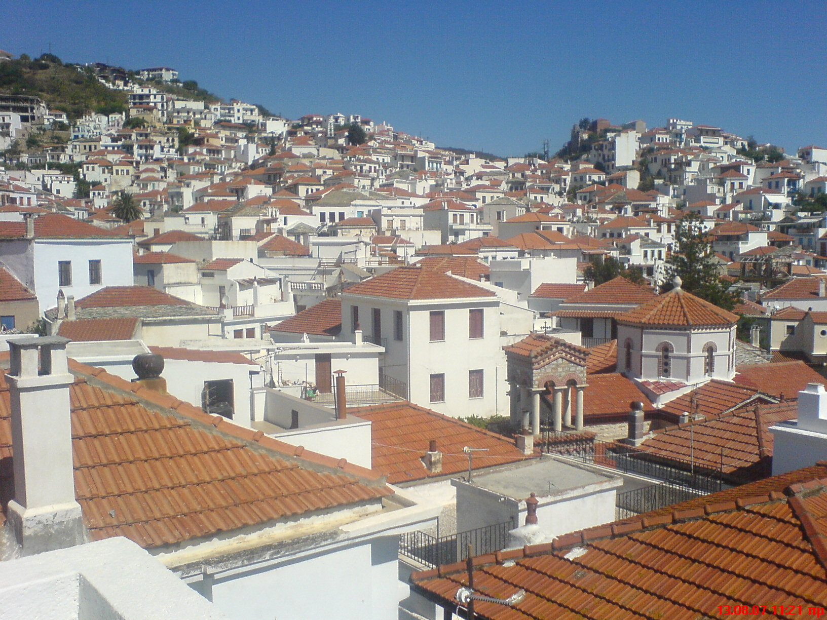 View of thw main town of Skopelos as seen from my house